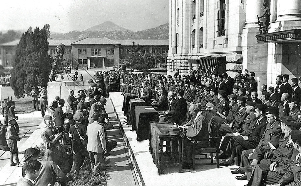 Welcoming ceremony of Syngman Rhee.